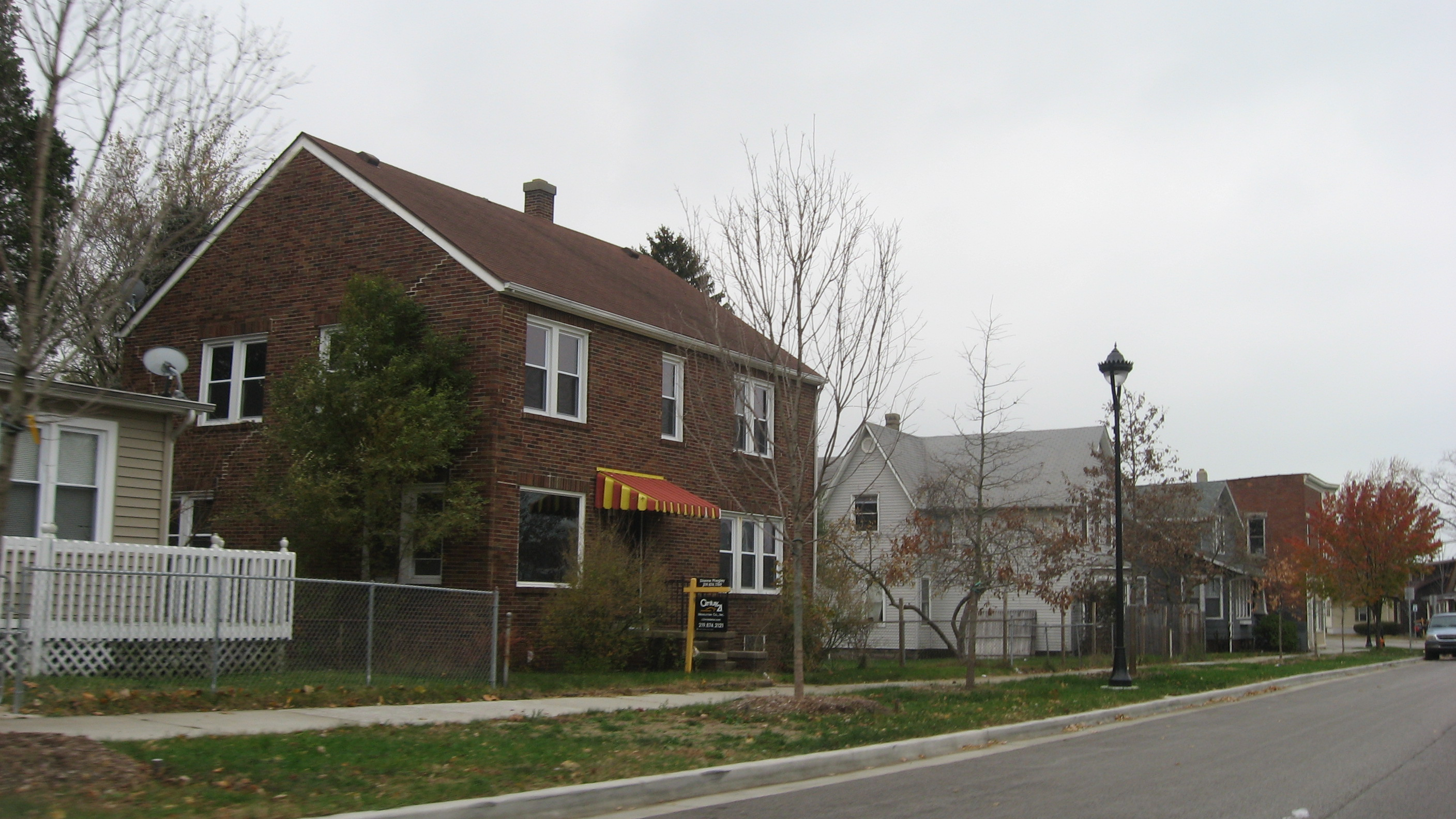 Buildings on the southern side of the 500 block of E. Tenth Street in Michigan City, Indiana, United States. From closest to farthest, they are: 519 Tenth: vernacular house, built 1890 515 Tenth: Colonial Revival house, built 1935 507 Tenth: vernacular house, built 1890 503 Tenth: vernacular house, built 1908 501 Tenth: Queen Anne former grocery store, built 1895 This block is part of the Elston Grove Historic District, a historic district that is listed on the National Register of Historic Places.